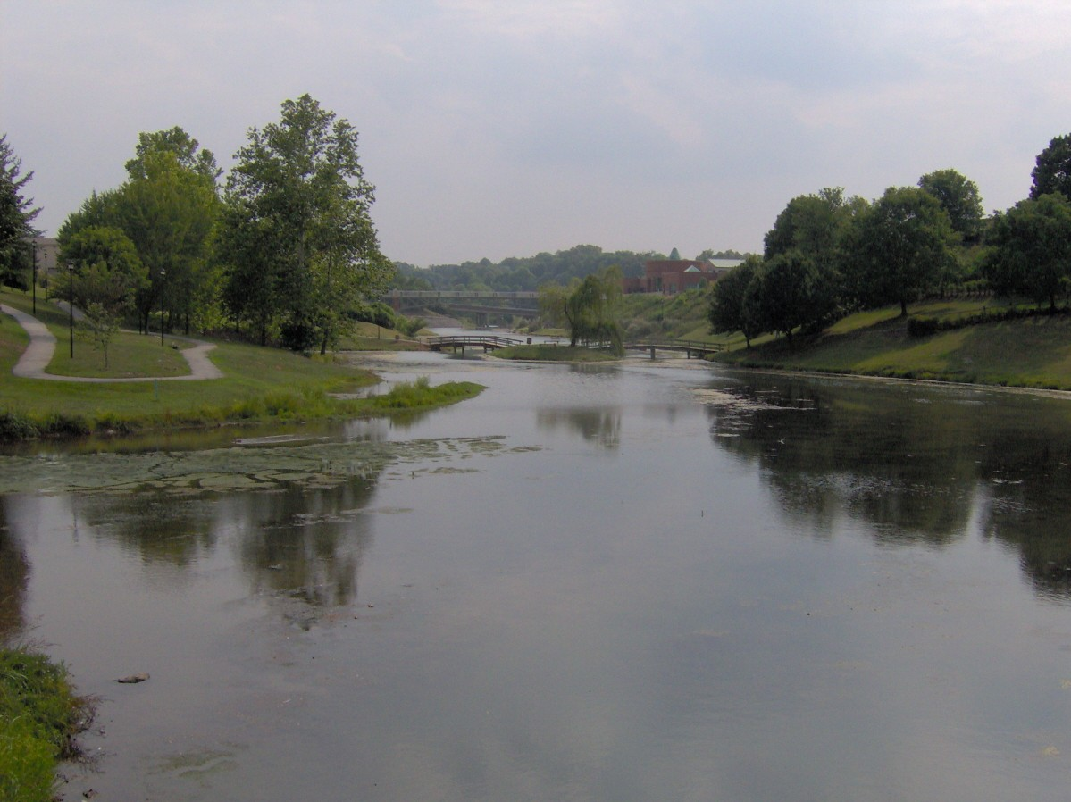 Greenbelt Park in downtown Maryville Tennessee. The park consists of a walking trail that follows Pistol Creek.